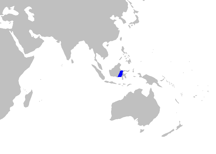 Distribution map for Apristurus sibogae